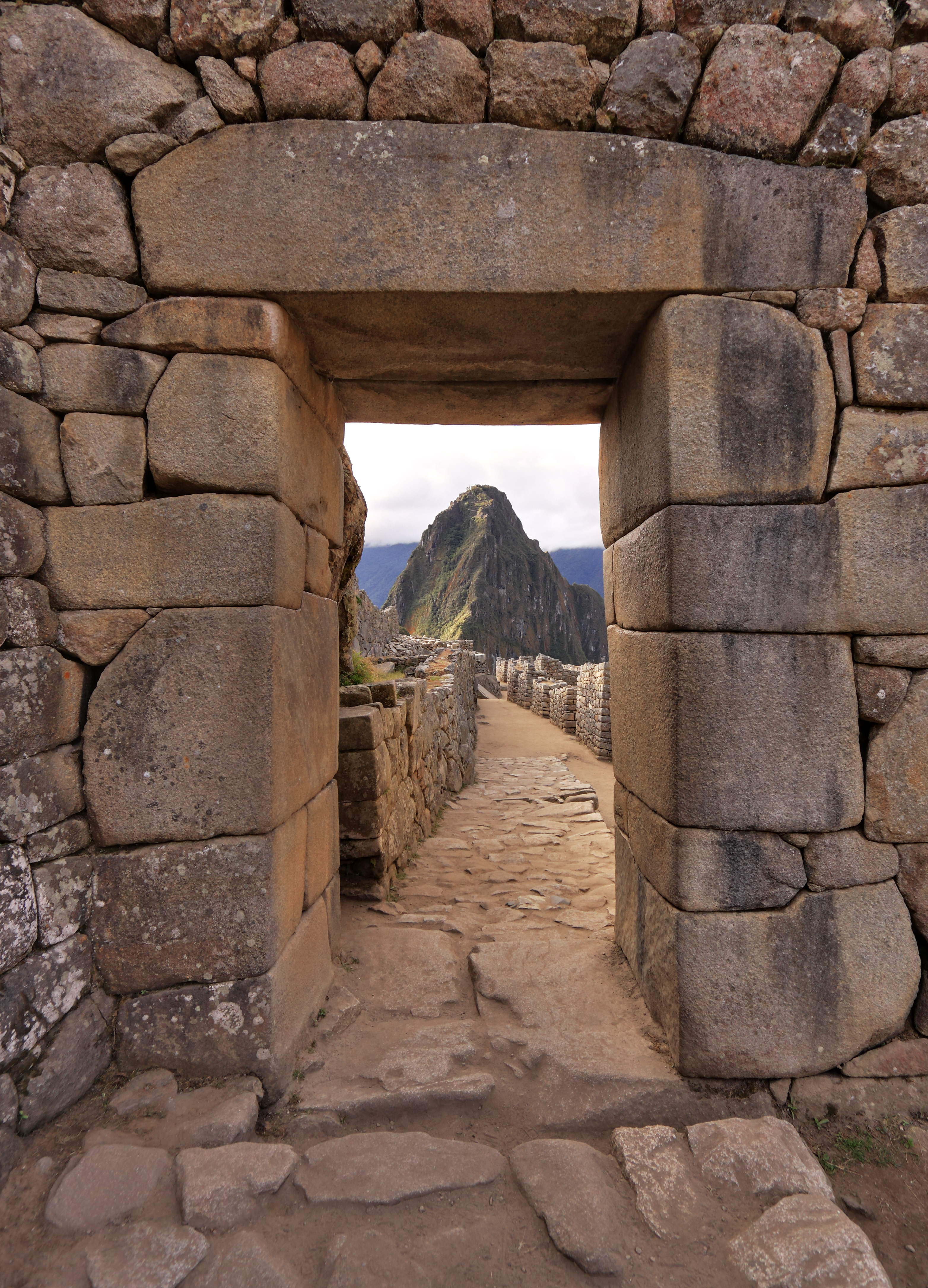 Please, have this description accessible to all by translating it in different languages.